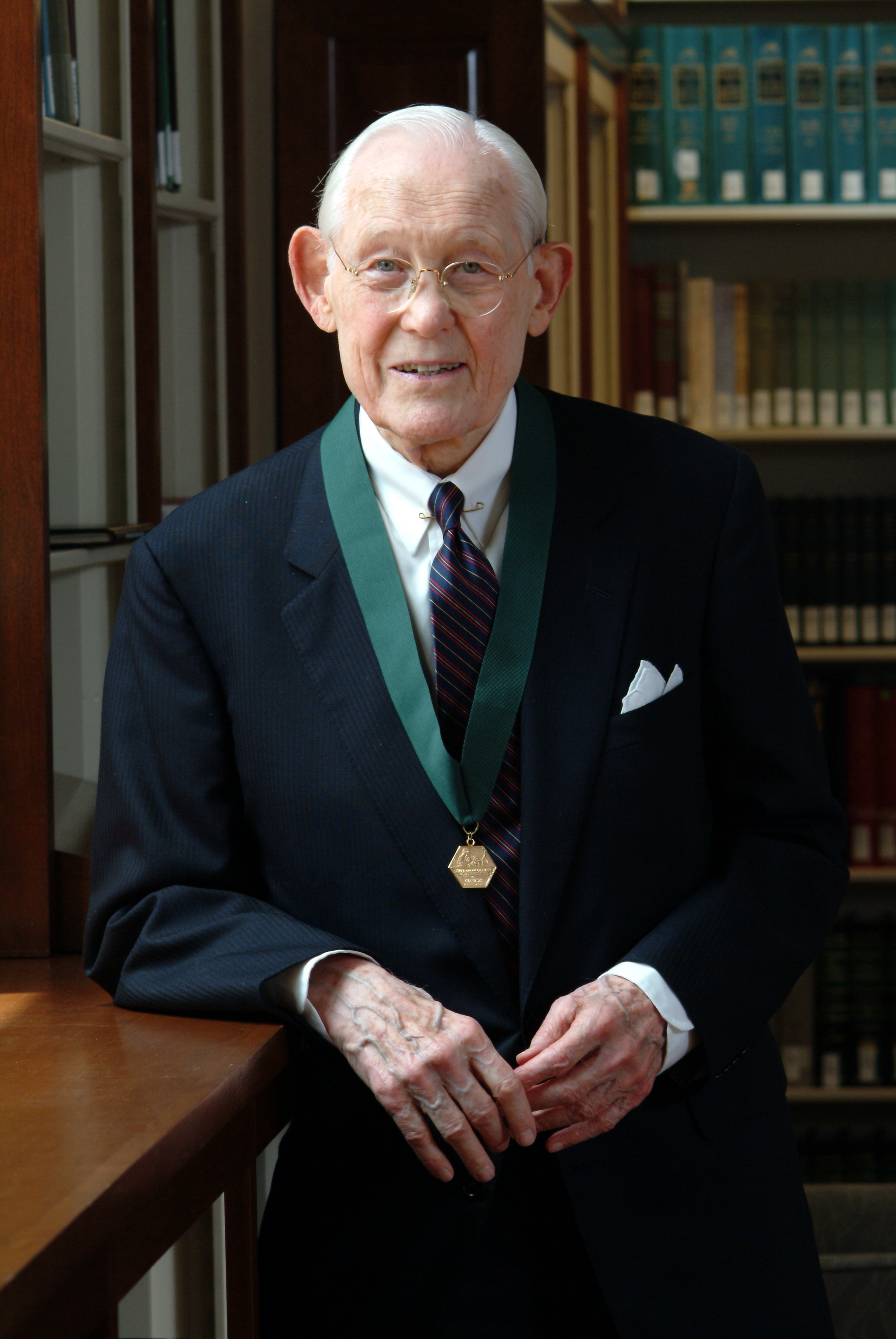 Photograph of Robert L. McNeil, Jr., chemist and recipient of the 2004 AIC Gold Medal, 9 June 2004, at Heritage Day, Chemical Heritage Foundation, Philadelphia, PA, USA.